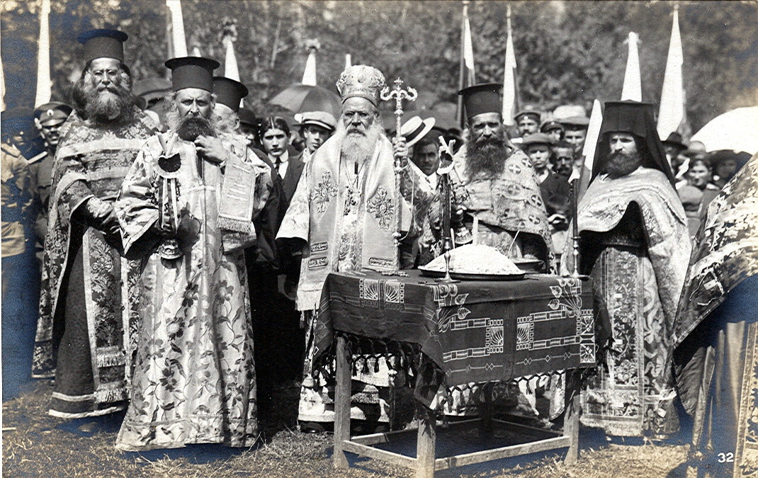 Auxentius of Pelagonia at a church service, Prilep, 1917.